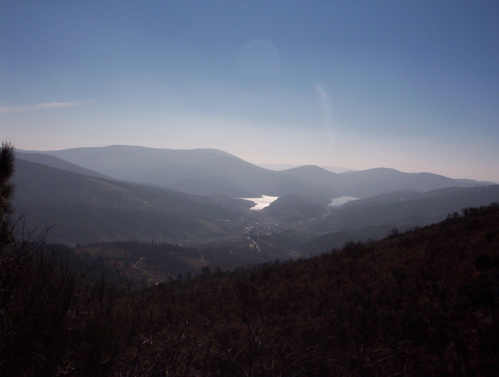 Paisaje Serra da Malcata, Meimoa.